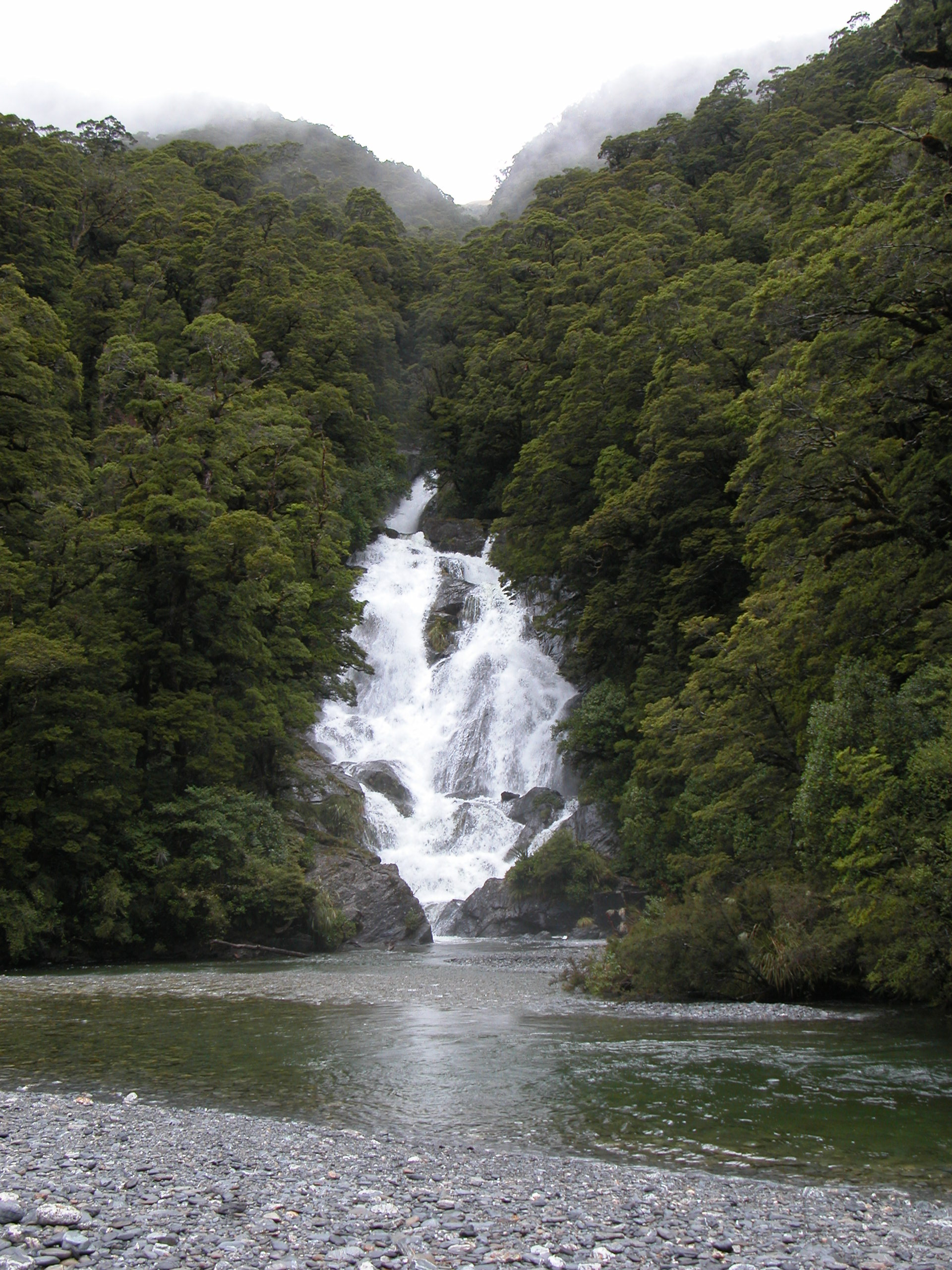 Fantail falls, Haast Pass, NZ. By William M. Connolley, 2005/12.